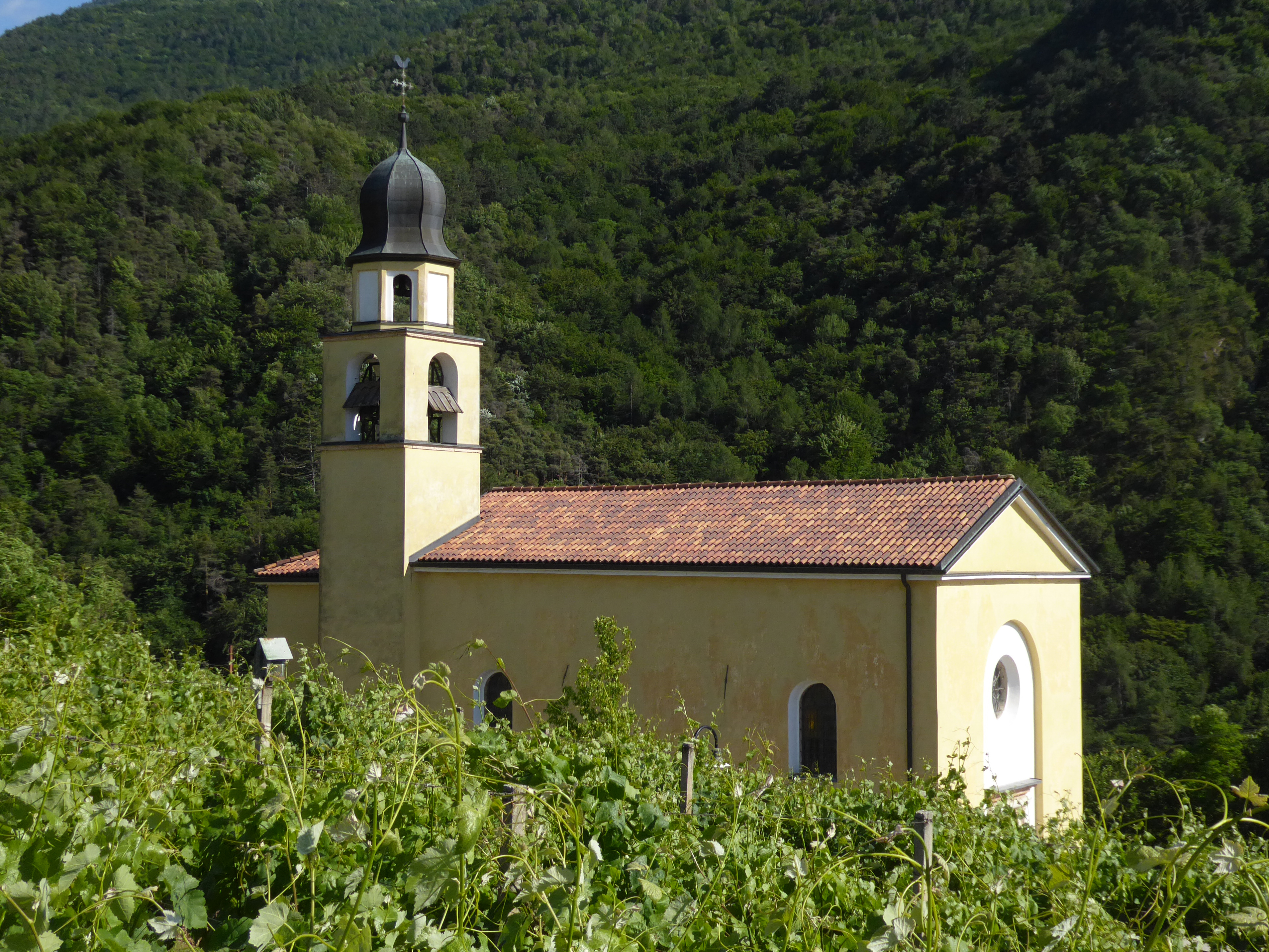 Valsorda (Trento, Italy) - Saint Valentine church